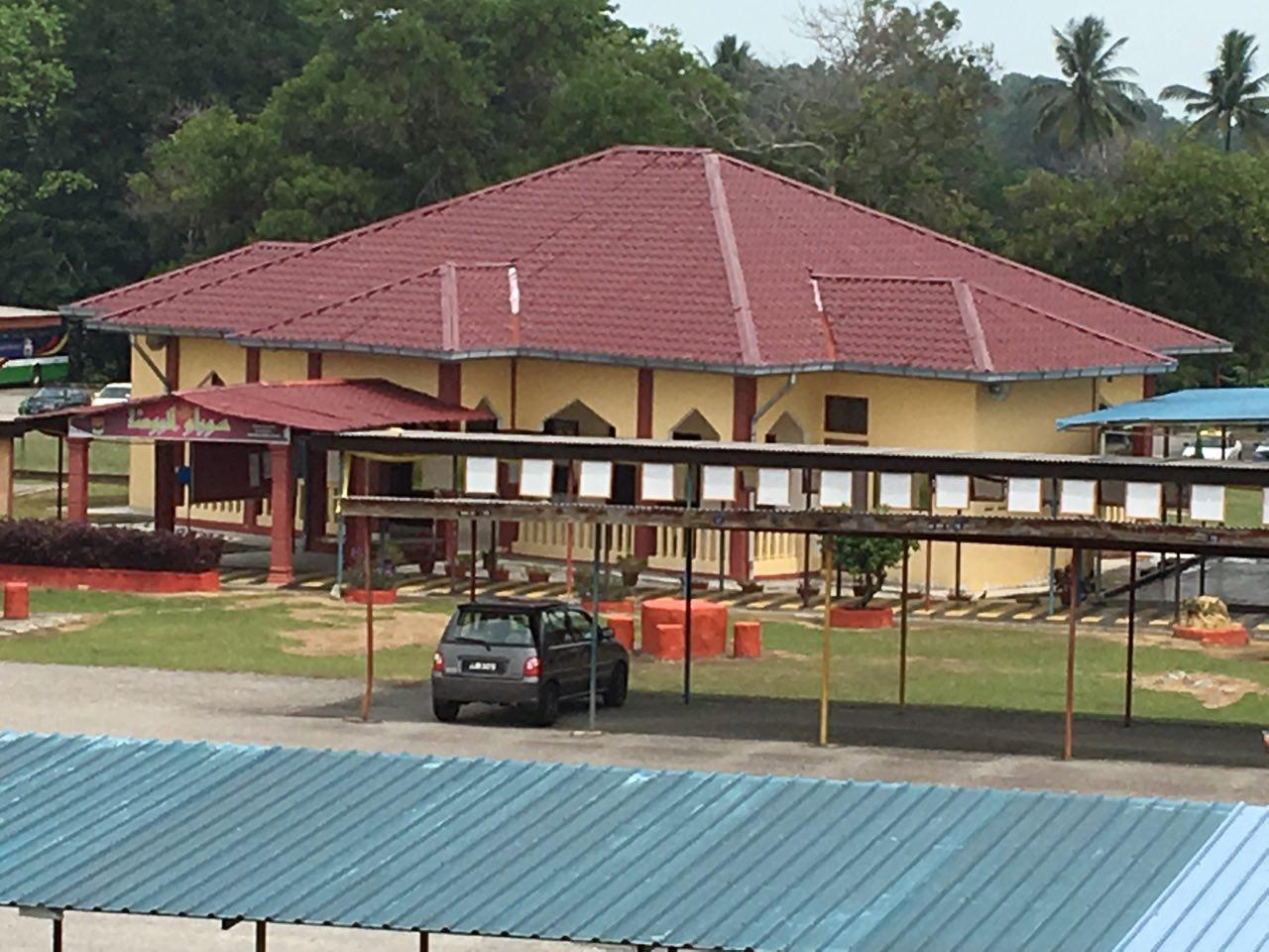 Kemudahan di SKKT 1